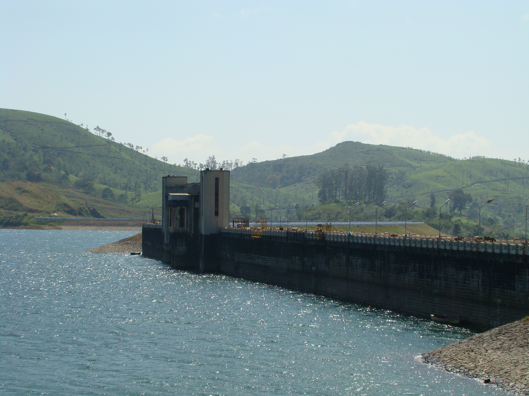 Solaiyar (Sholayar) Dam, Valparai, Tamil Nadu.